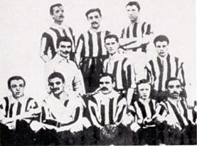 Italian Football Champion 1905 (FC Juventus) From Left to Right: Back: Gioacchino Armano, Luigi Durante, Oreste Mazzia Middle: Paul Walty, Giovanni Goccione, John Diment Front: Aldo Barberis, Carlo Vittorio Varetto, Luigi Forlano, James Squaire, Domenico Donna